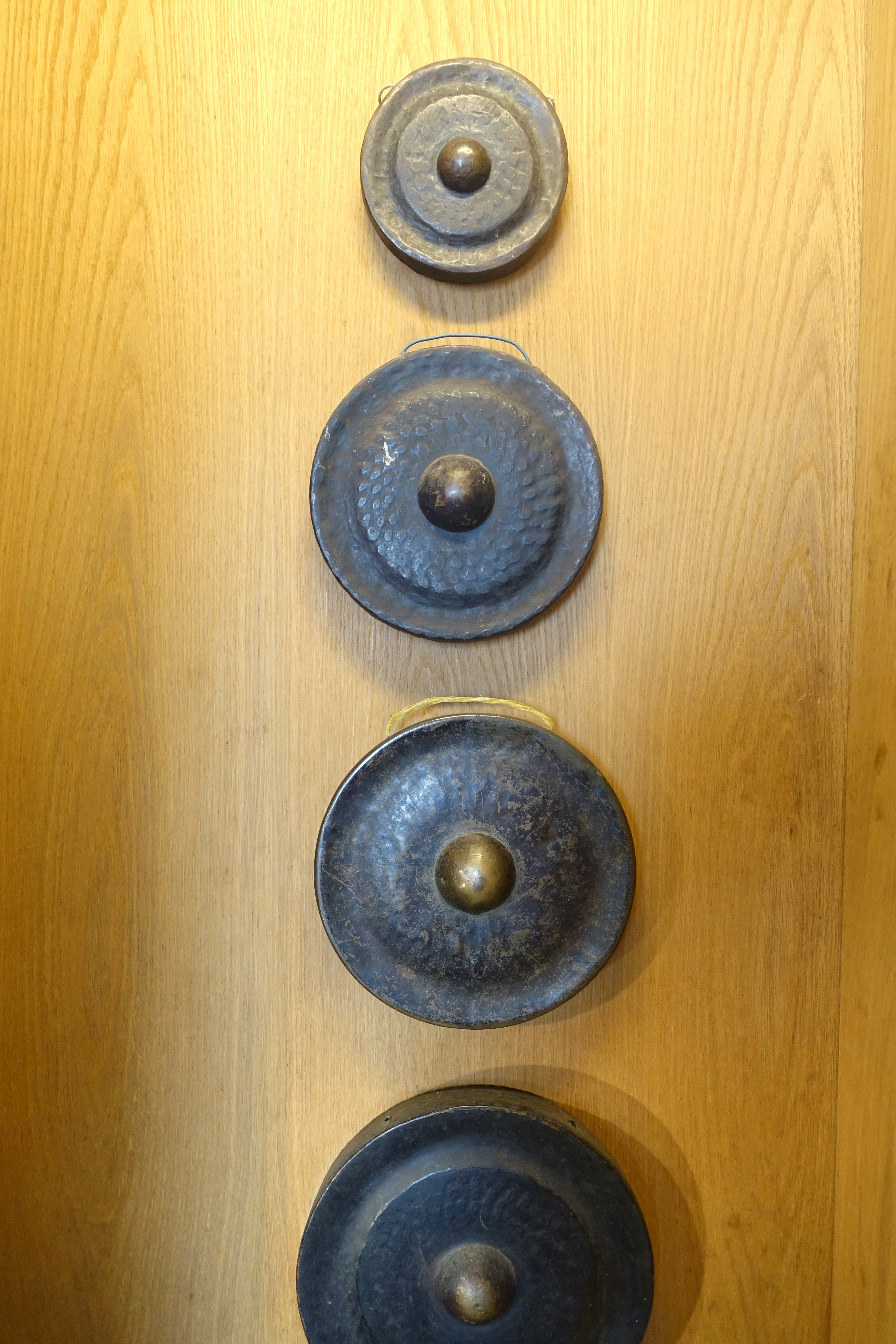 Exhibit in the Vietnam Museum of Ethnology - Hanoi, Vietnam.